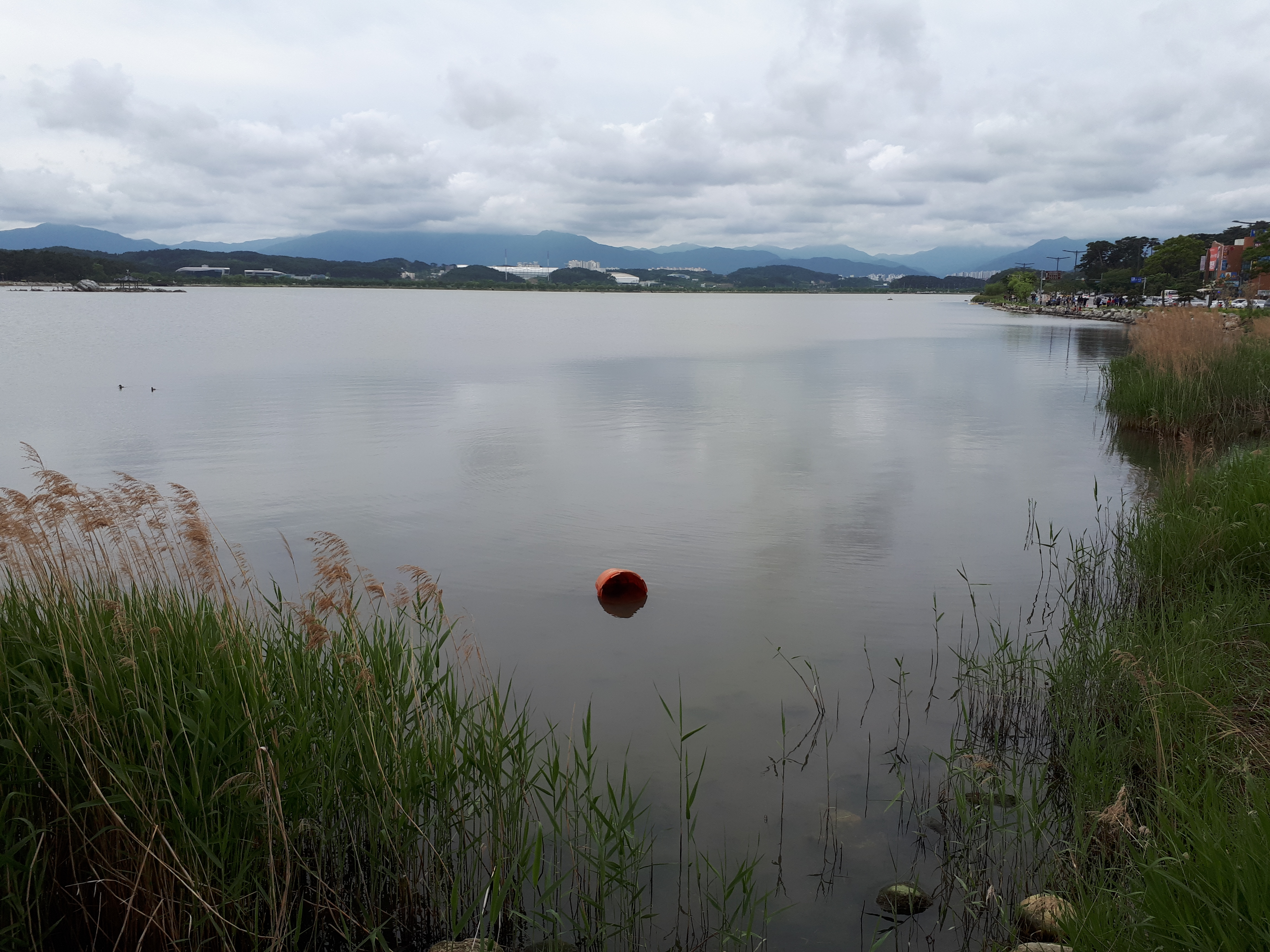 Gyeongpo Lake